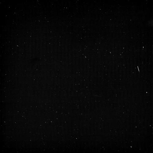 The photo was taken on December 28, 2007 and received on Earth December 29, 2007. The camera was pointing toward Albiorix at approximately 11,209,579 miles (18,040,069 kilometers) away, and the image was taken using the IR2 and CL2 filters. This image has not been validated or calibrated.